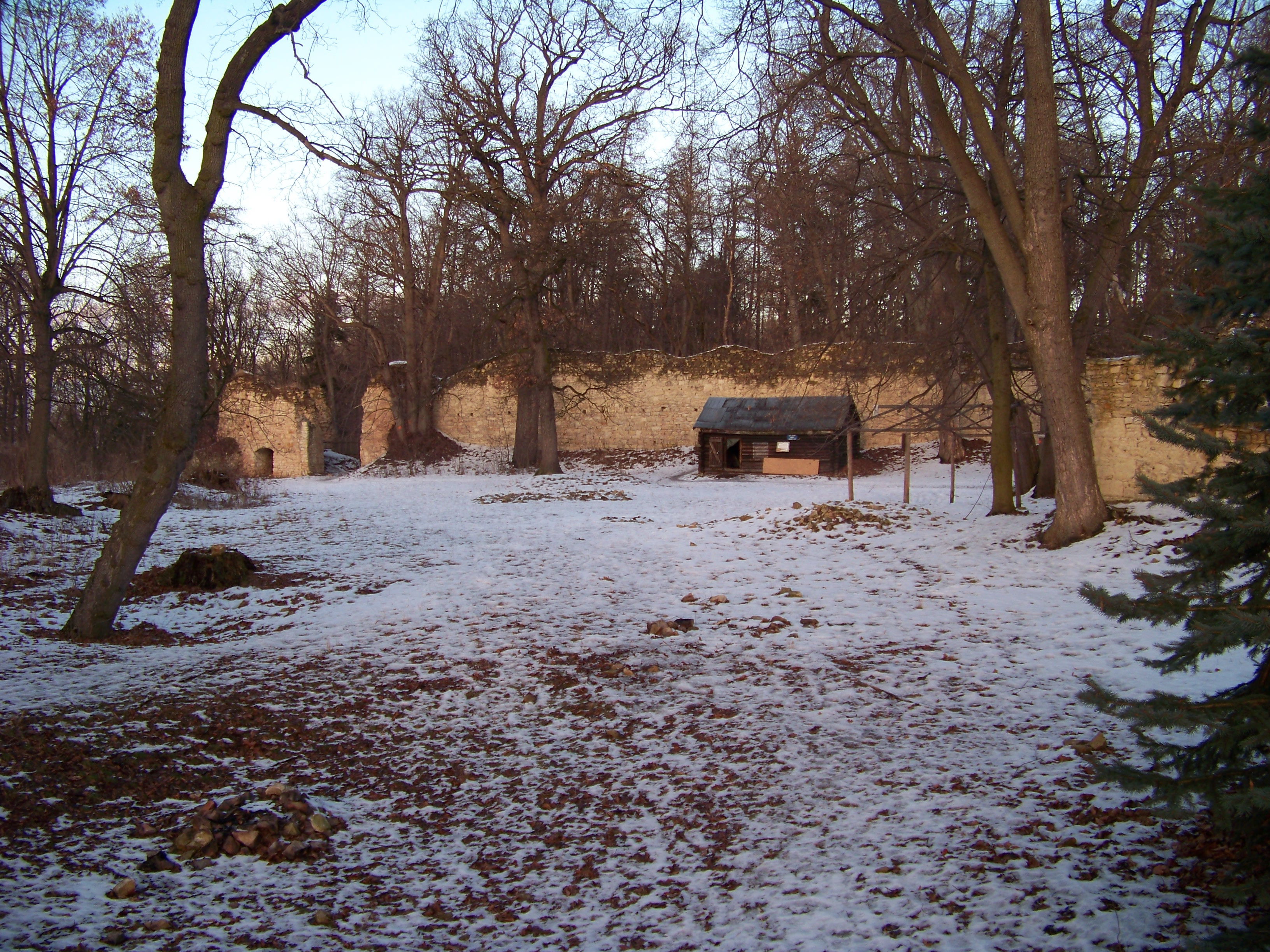 Ruin of Pravda Castle. Pnětluky, Louny District, the Czech Republic.